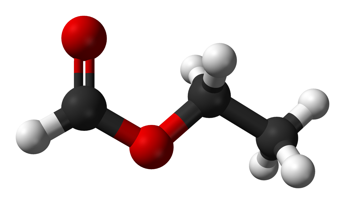 Ball-and-stick model of the ethyl formate molecule